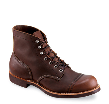 The iron ranger